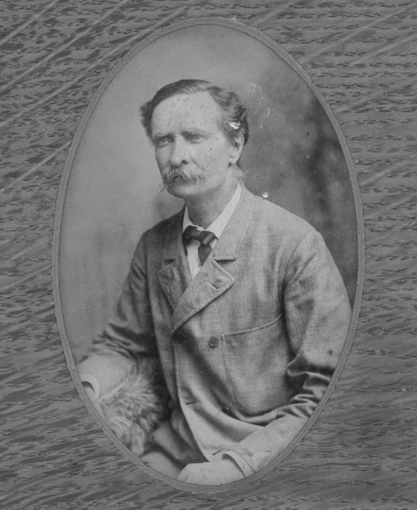 A portrait of Claudius Buchanan Whish.